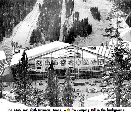 Blyth Arena (demolished) at the 1960 Winter Olympics in Squaw Valley.